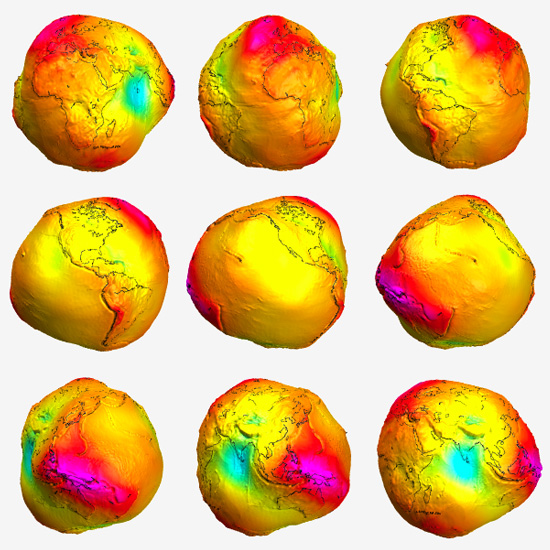 Diagram of the dissymmetrical gravity field of the Earth, walking around in nine steps. The image has been composed from the GRACE satellite mission's results. The coloured surface depicts the level of varying altitudes where the gravitational pull is exactly the same. The geometric proportion is extremely exaggregated for better perceptibility. The purple, highest areas show some higher gravity of greater mass concentrations under the ground, the anomality value is cca. +60 mGal (0.0061%). If you make a high accuracy weight measurement here at a distance from the geometric center of Earth then you receive higher value than at the cyan area, at the same geometric altitude. Cyan indicates deviation nearly –70 mGal.